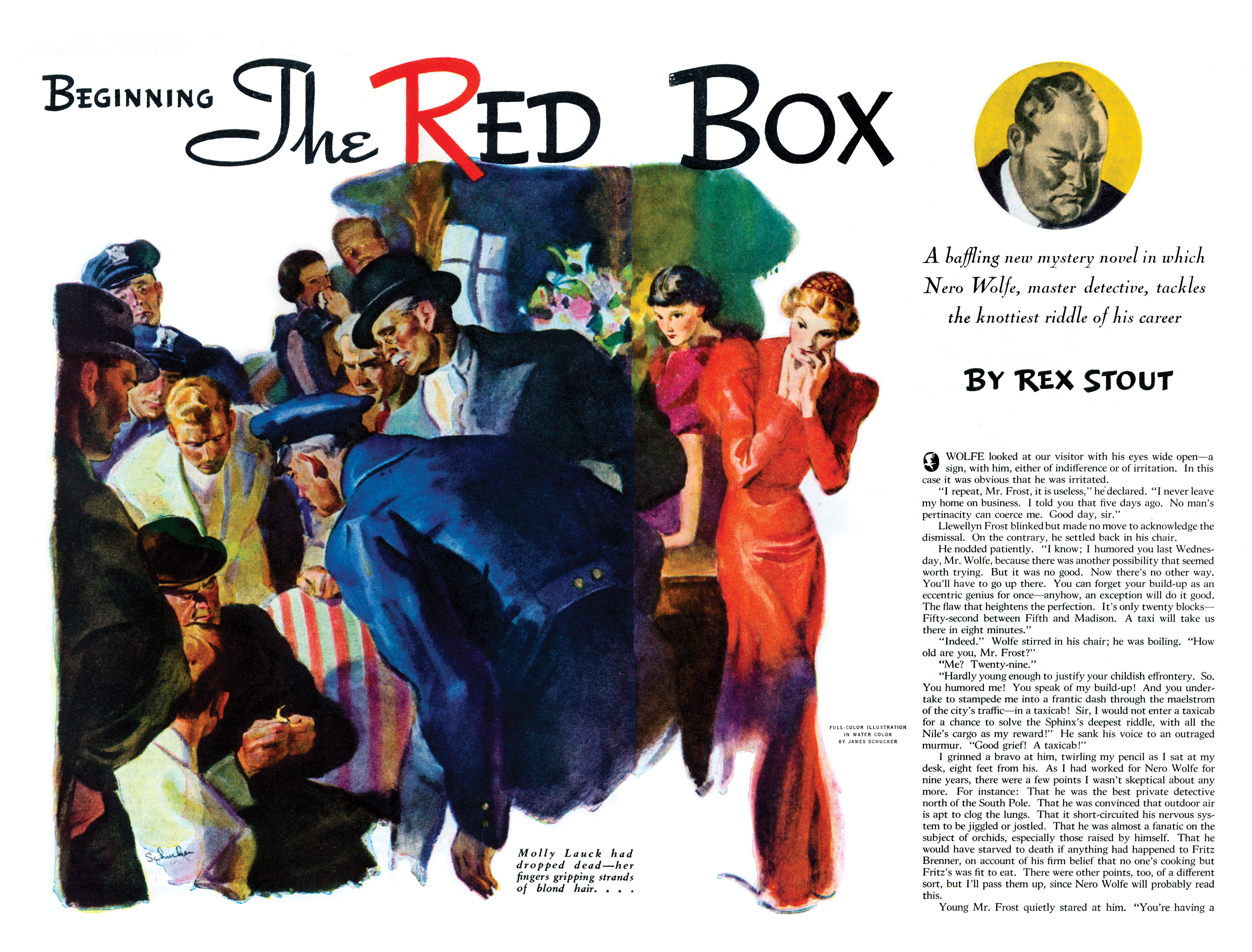 Lead illustration from The American Magazine printing of part one of The Red Box, a Nero Wolfe novel by Rex Stout